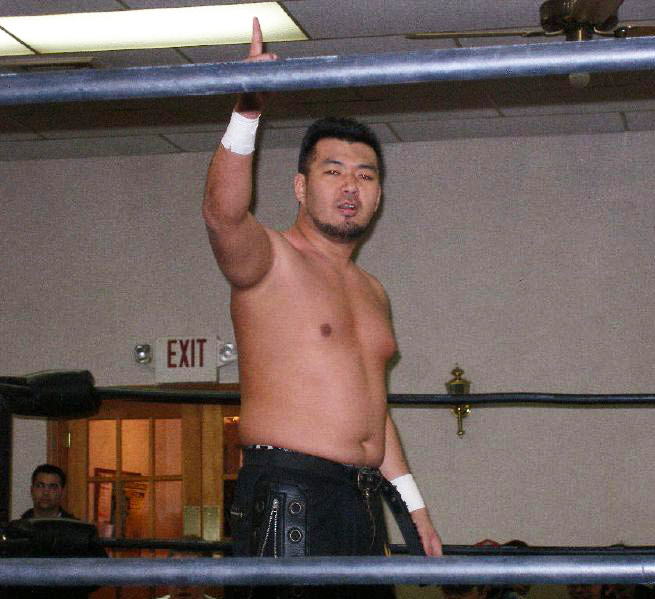 MIYAWAKI at the Chikara: King of Trios 2007 - Night 2, in Barnesville, Pennsylvania.